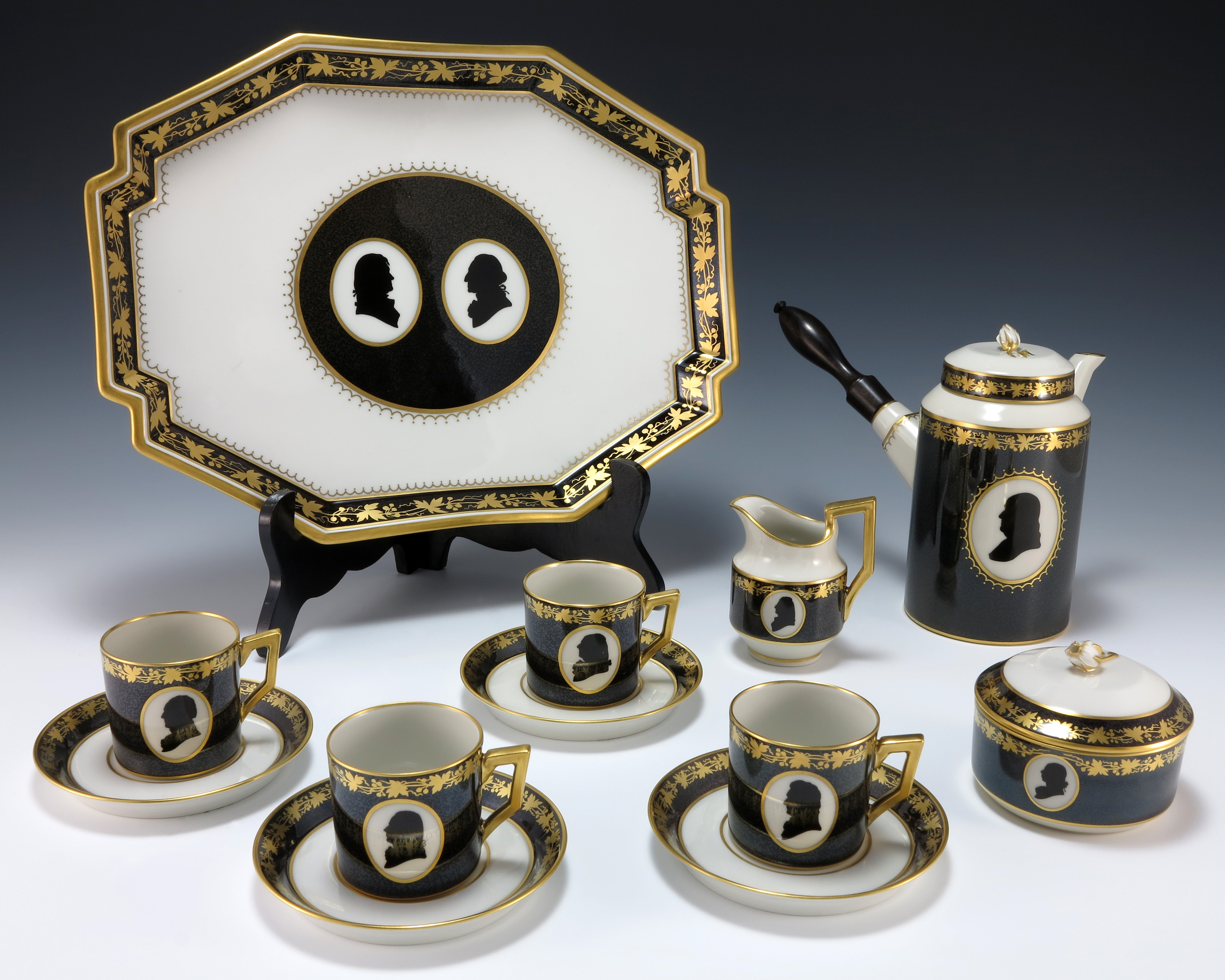 A Royal Copenhagen Porcelain Colonial Coffee service includes a coffee pot with lid, a creamer, a sugar bowl with lid, four coffee cups, four coffee saucers, and a serving tray. Each item features the silhouette of an American Patriot such as, George Washington, Thomas Jefferson, James Madison, Alexander Hamilton, and etc. Additionally, each piece has a tortoise shell glaze and a gold band around the bottom, with a gold grapevine inlay around the top. Gift of Queen Margrethe II and Prince Henrik of Denmark, 1976.